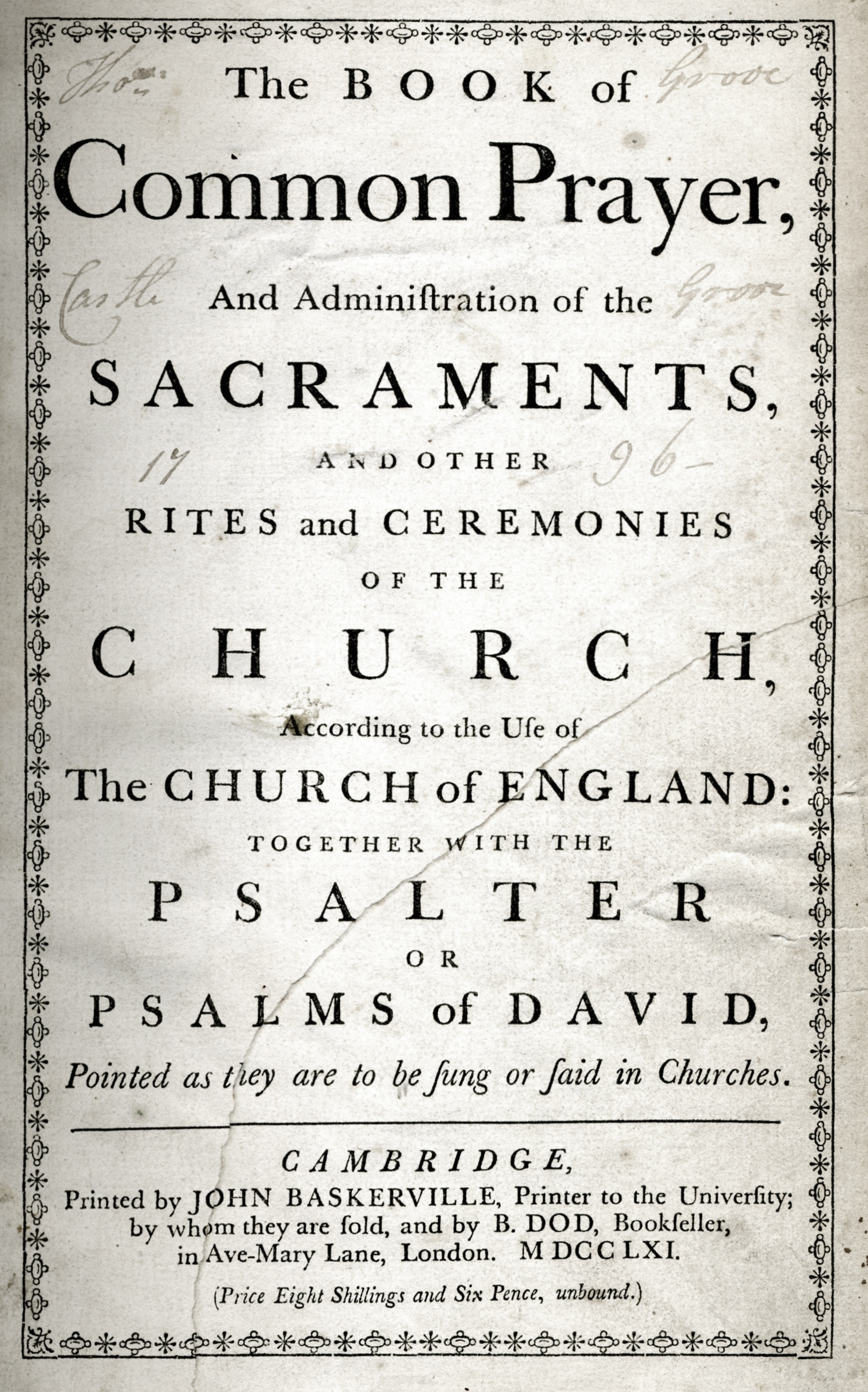 The Book of Common Prayer printed by John Baskerville.